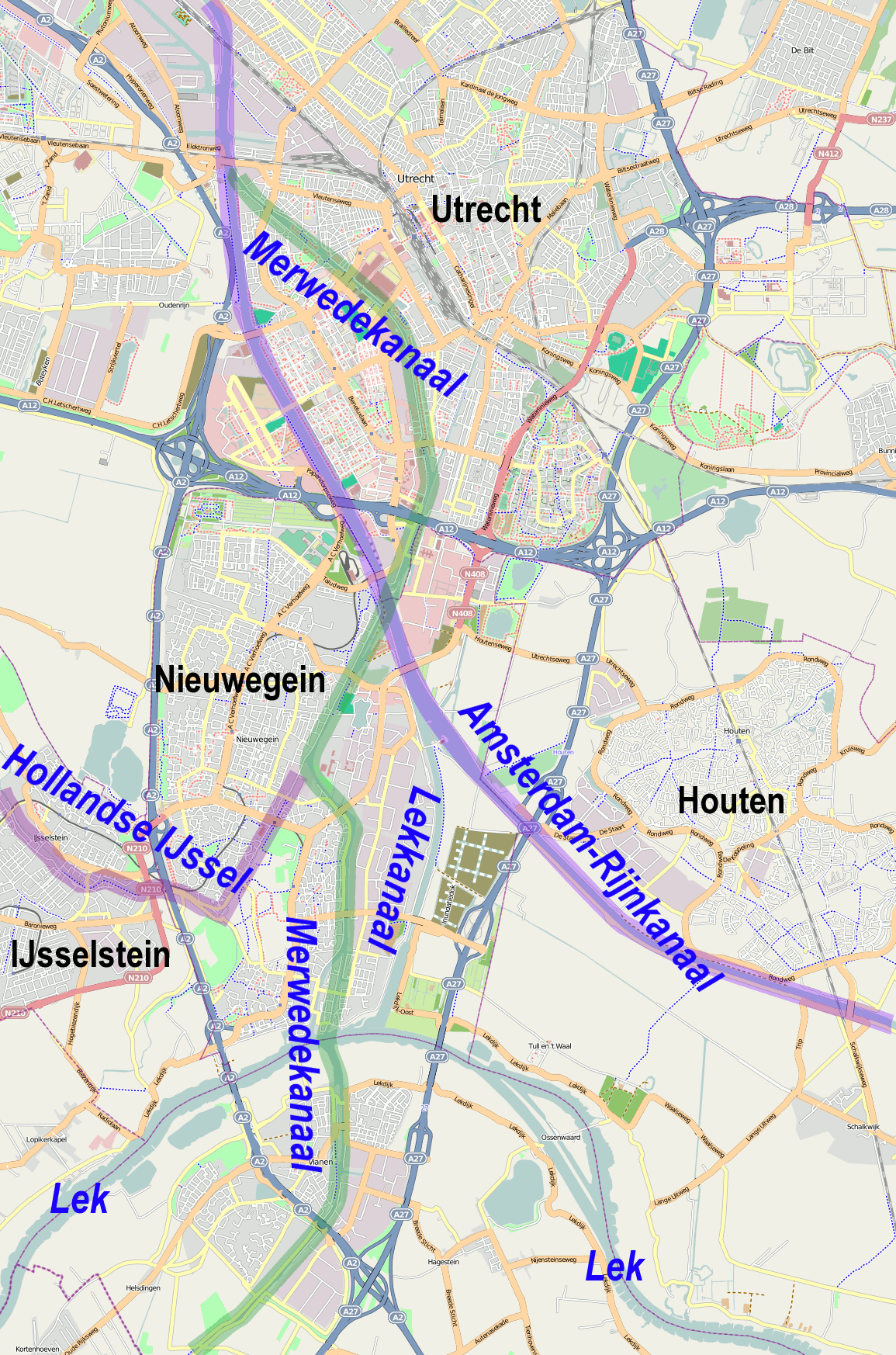 Canal Network at Utrecht, Netherlands